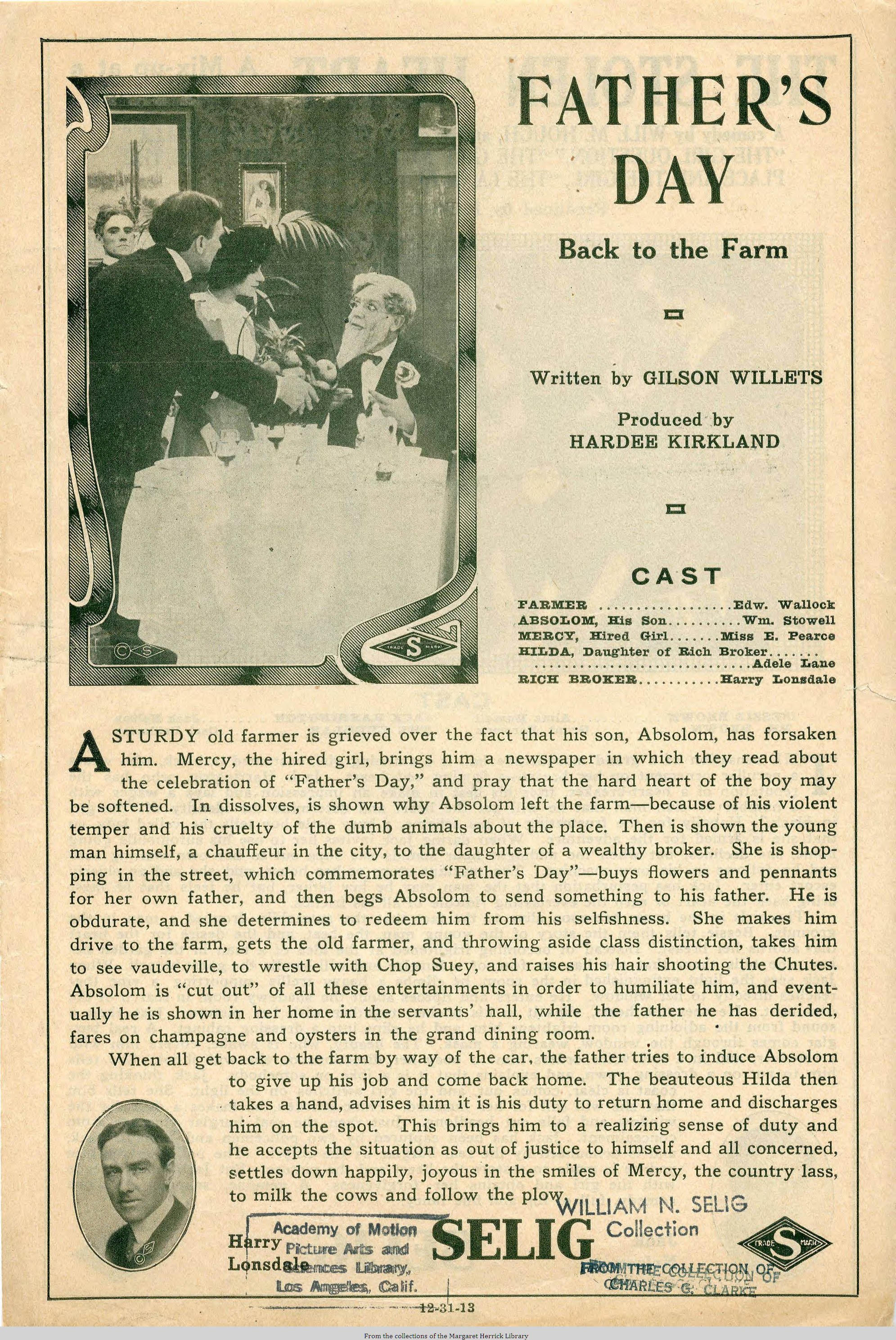 Release flier for FATHER'S DAY, 1913